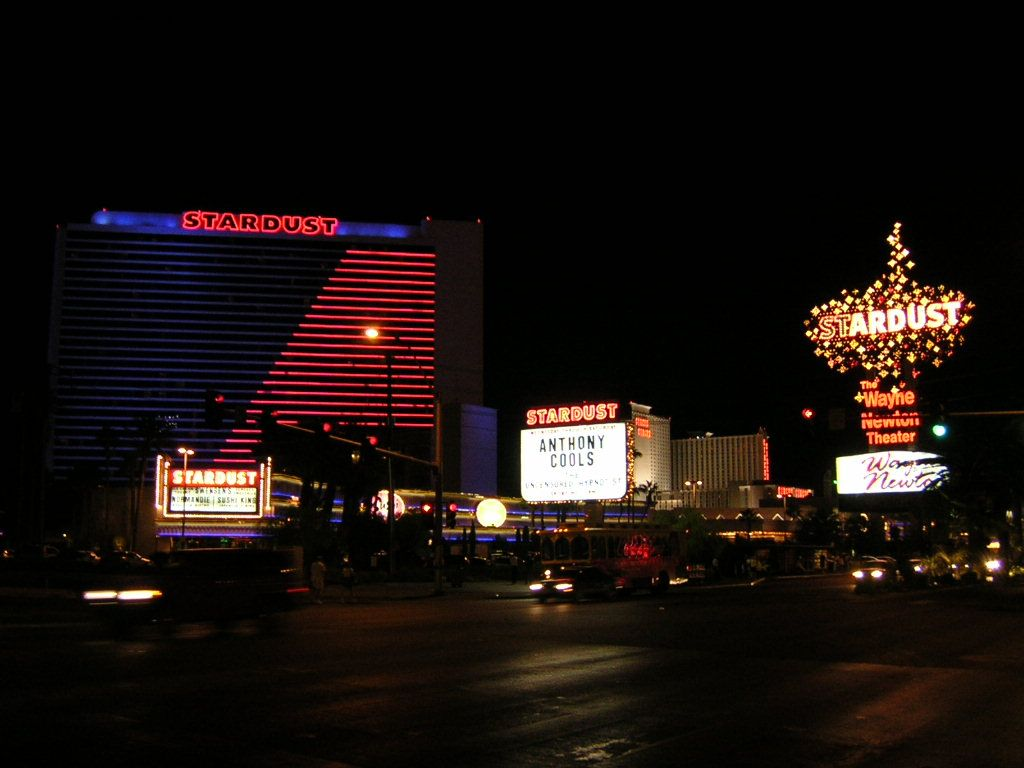 Stardust Hotel & Casino at night - Las Vegas - Nevada.